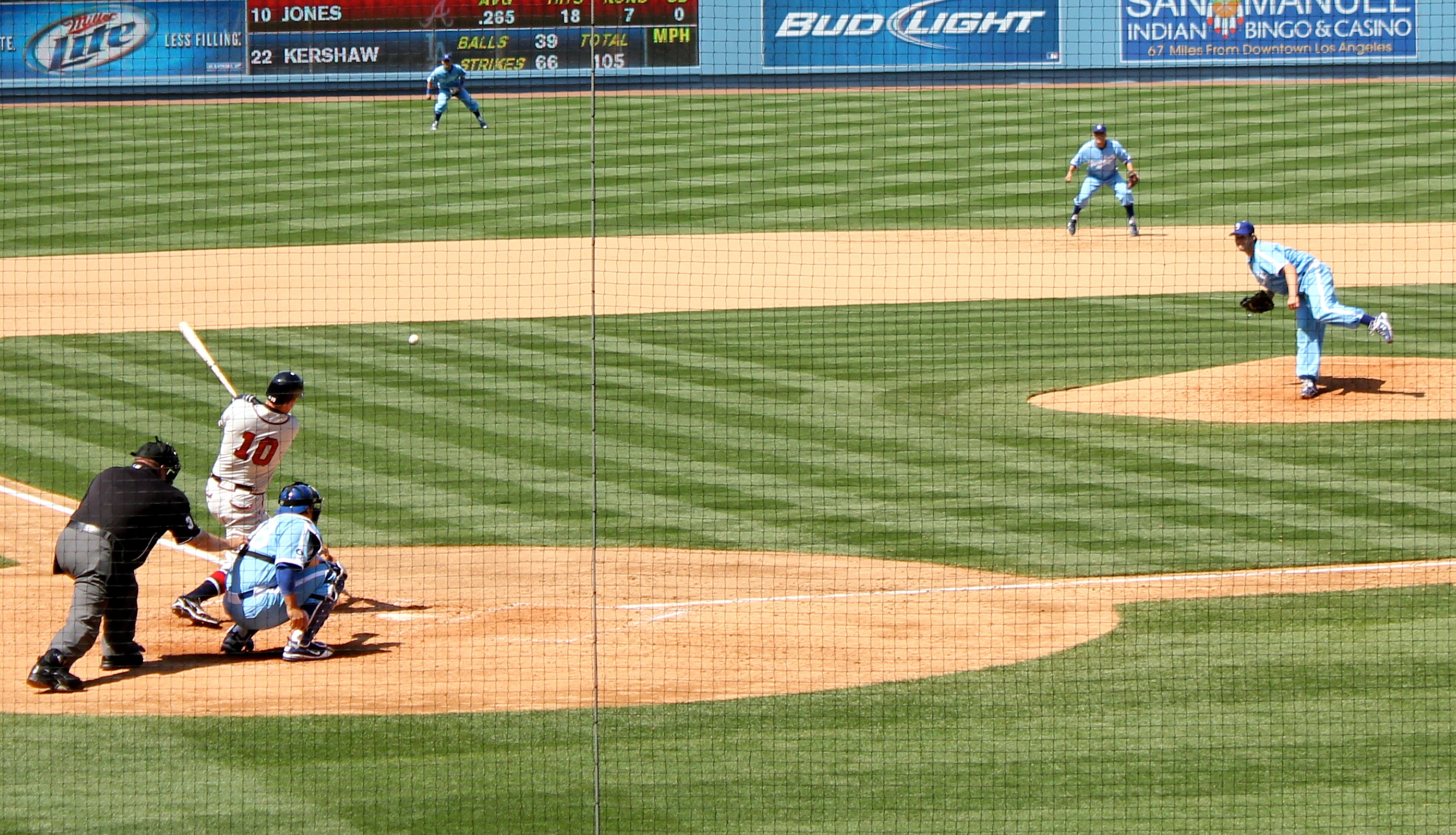 Clayton Kershaw pitching against Chipper Jones